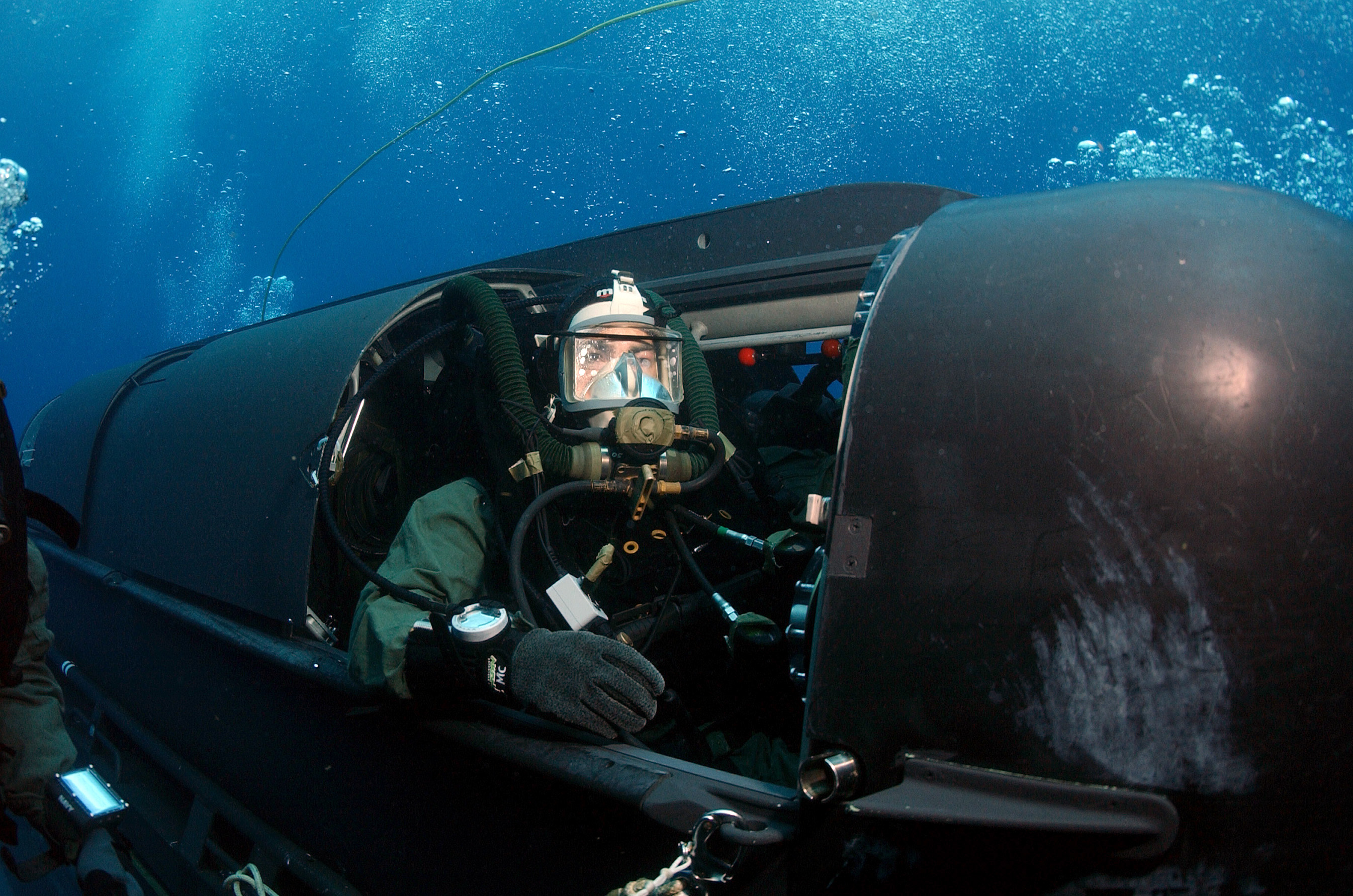 Atlantic Ocean (May 5, 2005) - A member of SEAL Delivery Vehicle Team Two (SDVT-2) prepares to launch one of the team's SEAL Delivery Vehicles (SDV) from the back of the Los Angeles-class attack submarine USS Philadelphia (SSN 690) on a training exercise. The SDVs are used to carry Navy SEALs from a submerged submarine to enemy targets while staying underwater and undetected. SDVT-2 is stationed at Naval Amphibious Base Little Creek, Va., and conducts operations throughout the Atlantic, Southern, and European command areas of responsibility. U.S. Navy photo by Chief Photographer's Mate Andrew McKaskle (RELEASED)